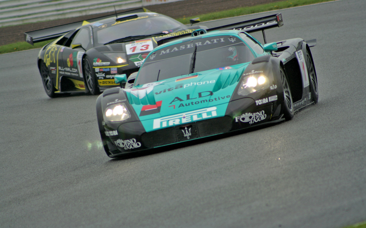 Taken at the FIA GT Championship 7th May 2006 Silverstone